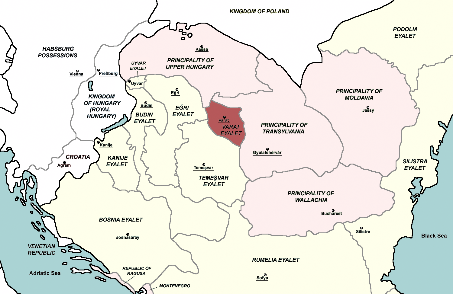 Varat Eyalet in 1683. Tributary states of the Ottoman Empire are shown in pink.